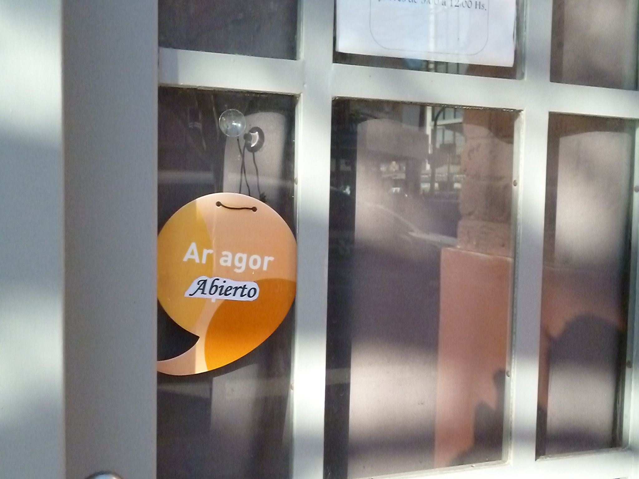 "Open" sign in Spanish and Welsh, Y Wladfa